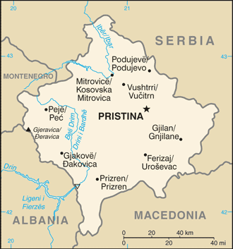 New map of Kosovo from the CIA Factbook, 28 Feb 08 rev.